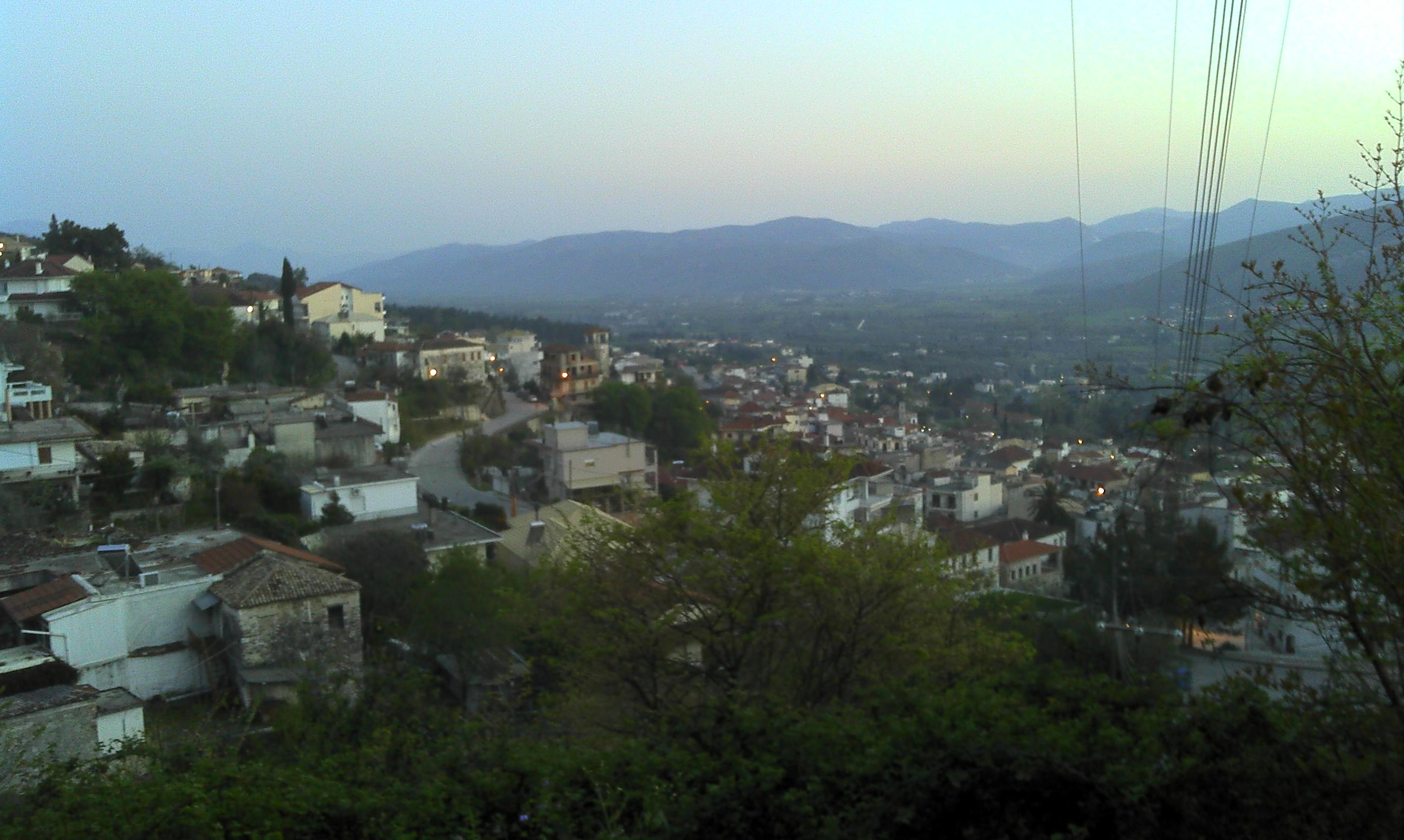 Paramythia in Epirus, GREECE.